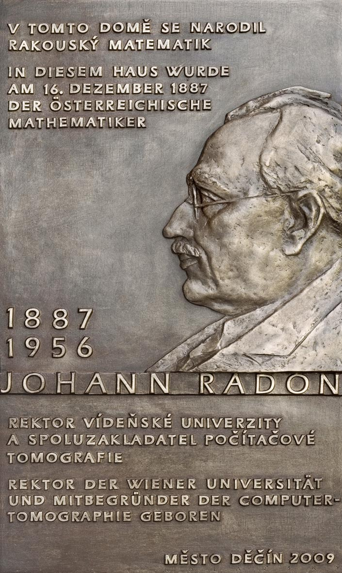 Memorial plaque on Johann Radon's house of birth, made by Zdeněk Kolářský.